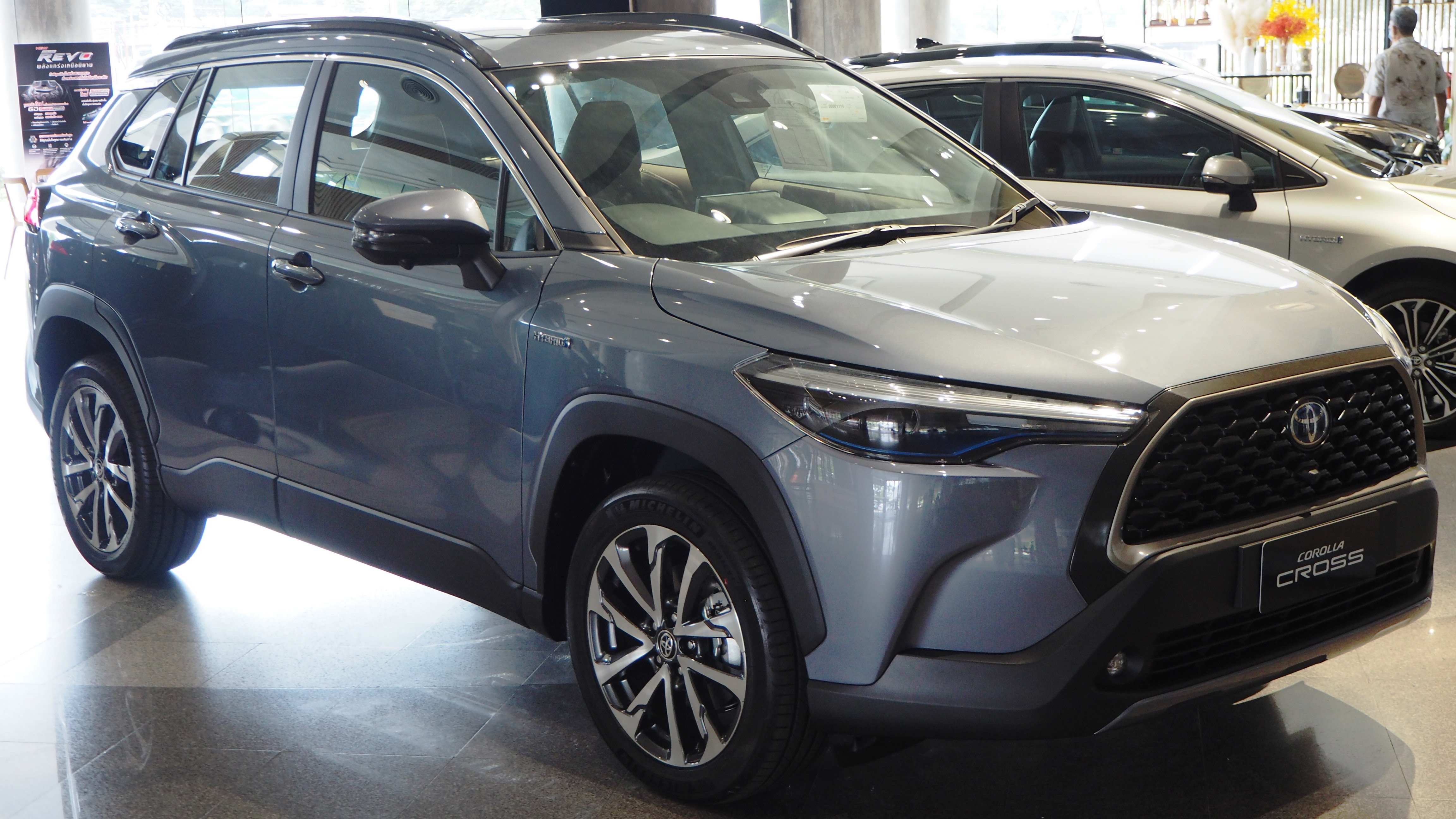 2020 Toyota Corolla Cross Hybrid Premium Safety in Toyota Khonkaen, Khon Kaen, Thailand.